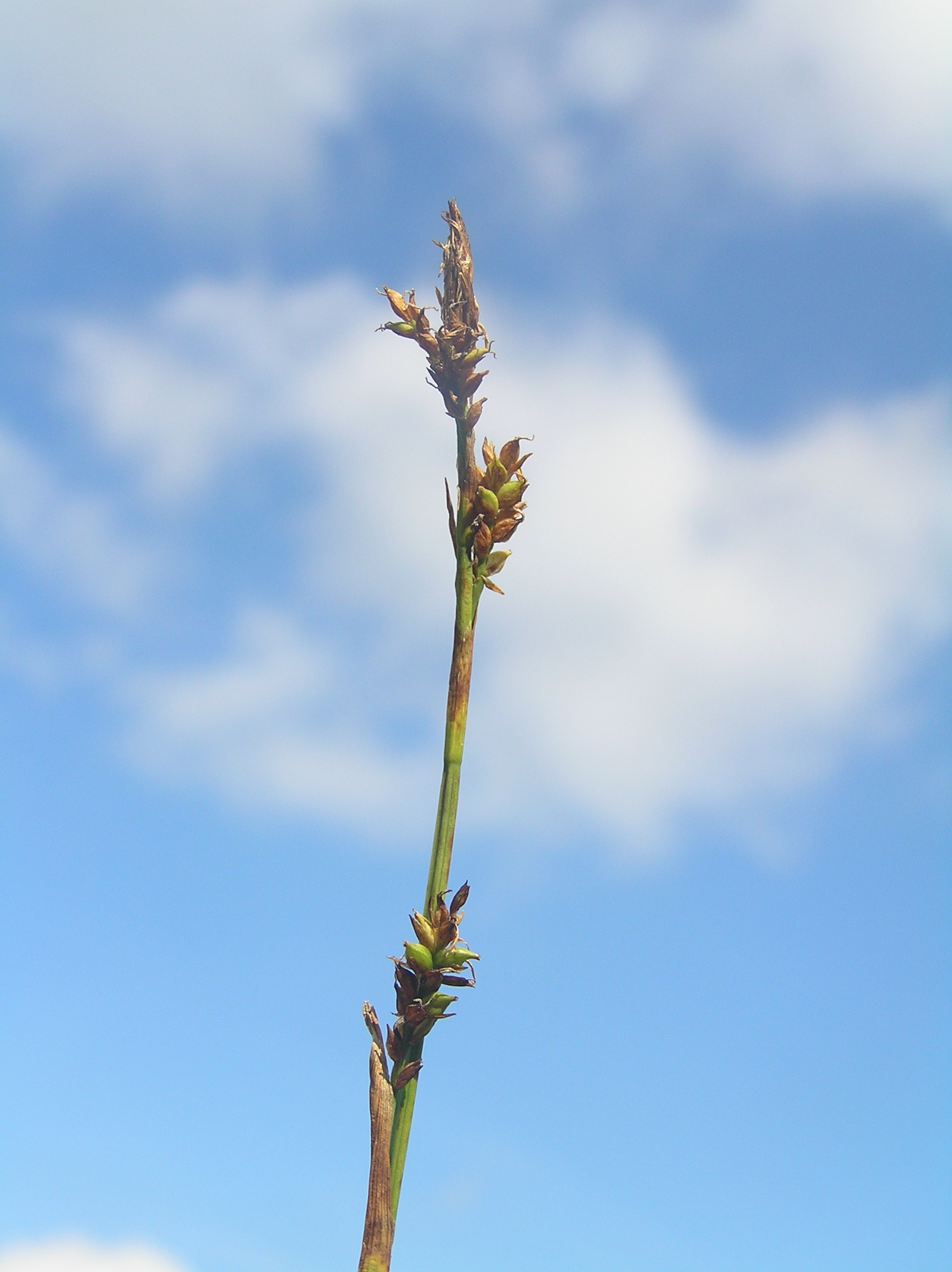 Carex vaginata, Studníční stěna, Krkonoše, Czech Republic